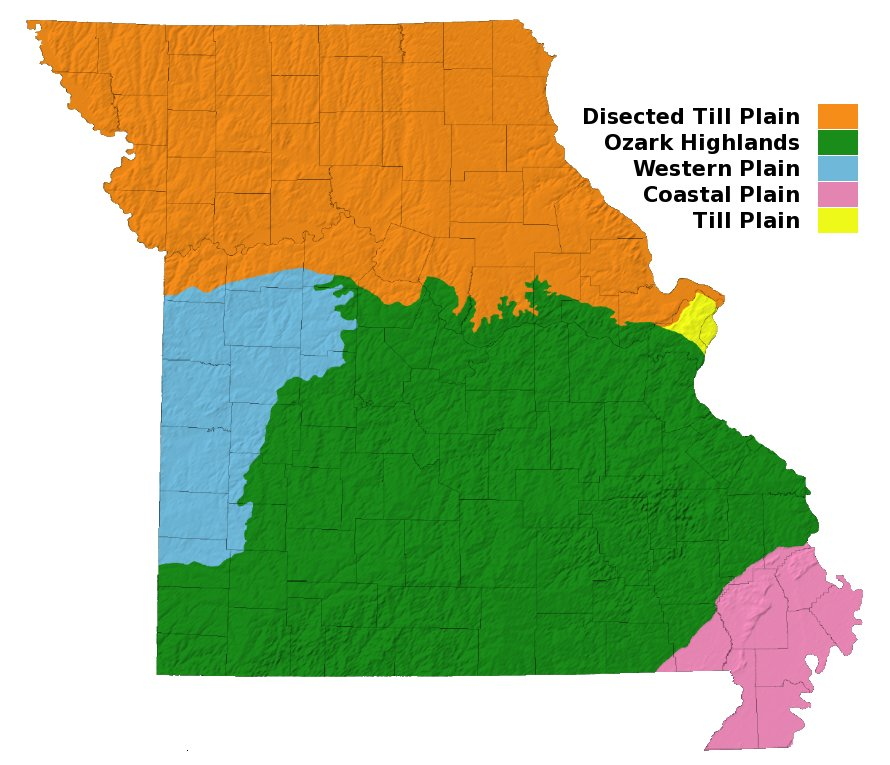 A map of Missouri depicting the major geophysical provinces of the state. Created using data from the Missouri Spatial Data Information service (metadata; data), and with 3-arcsecond SRTM elevation data.